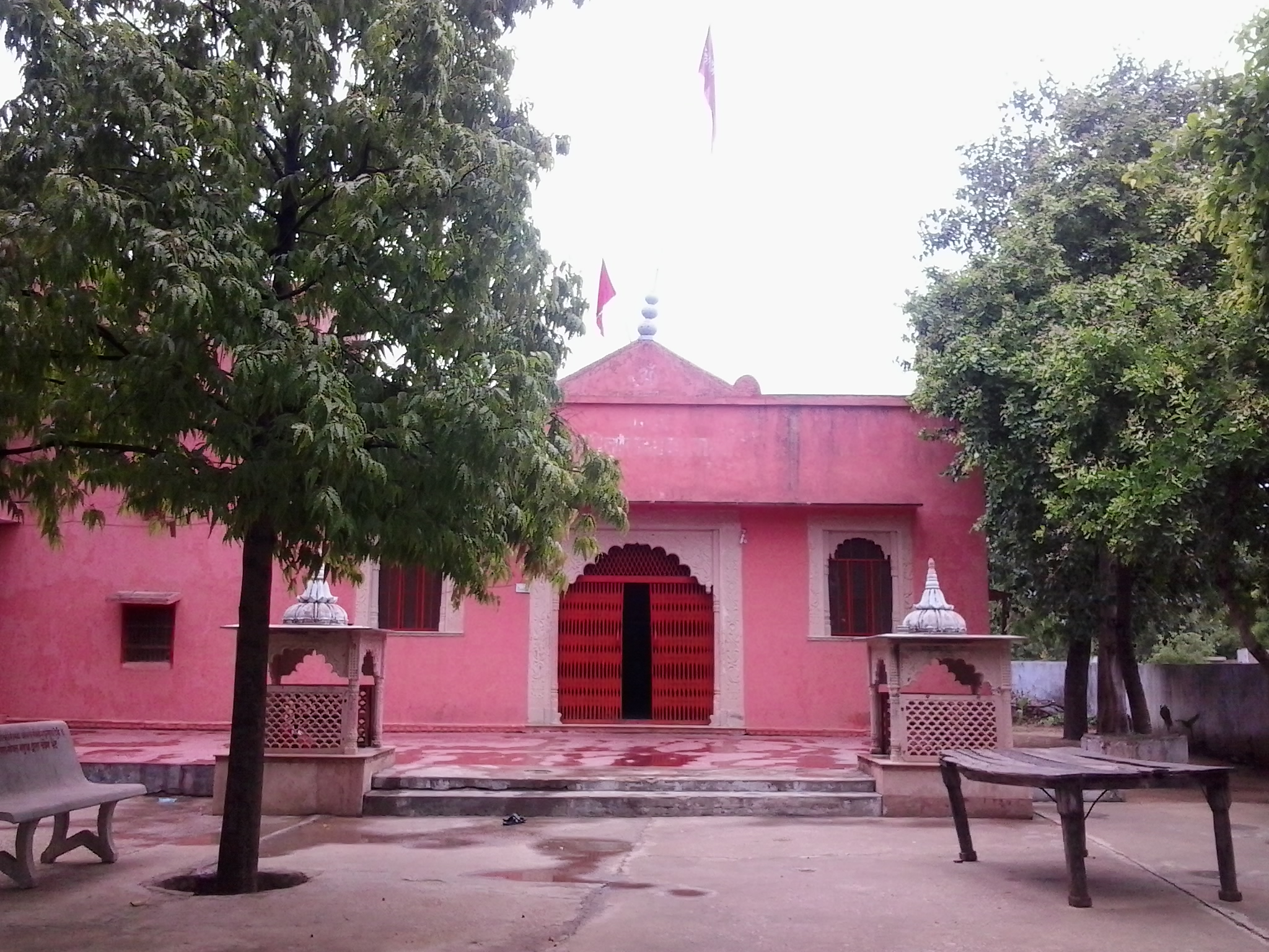 This is a front view of Peetaliya Balaji Temple located at the village "Peetaliya Balaji"